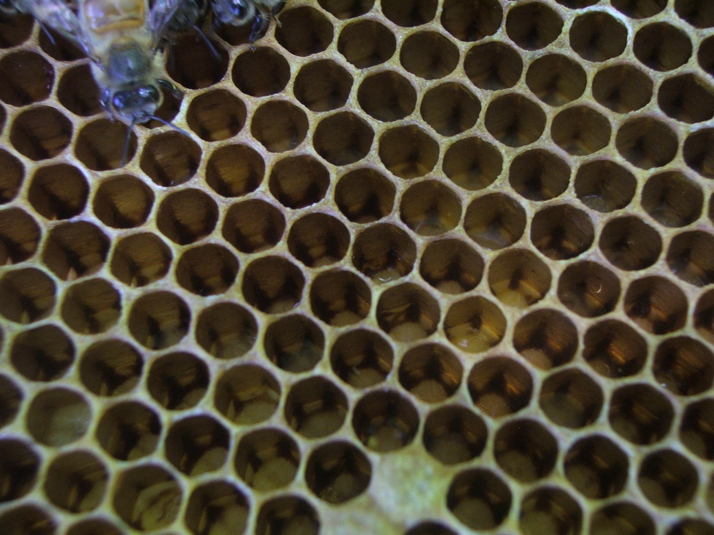 This brood comb has been used for larva several times. It is darker because of the pupal lining.